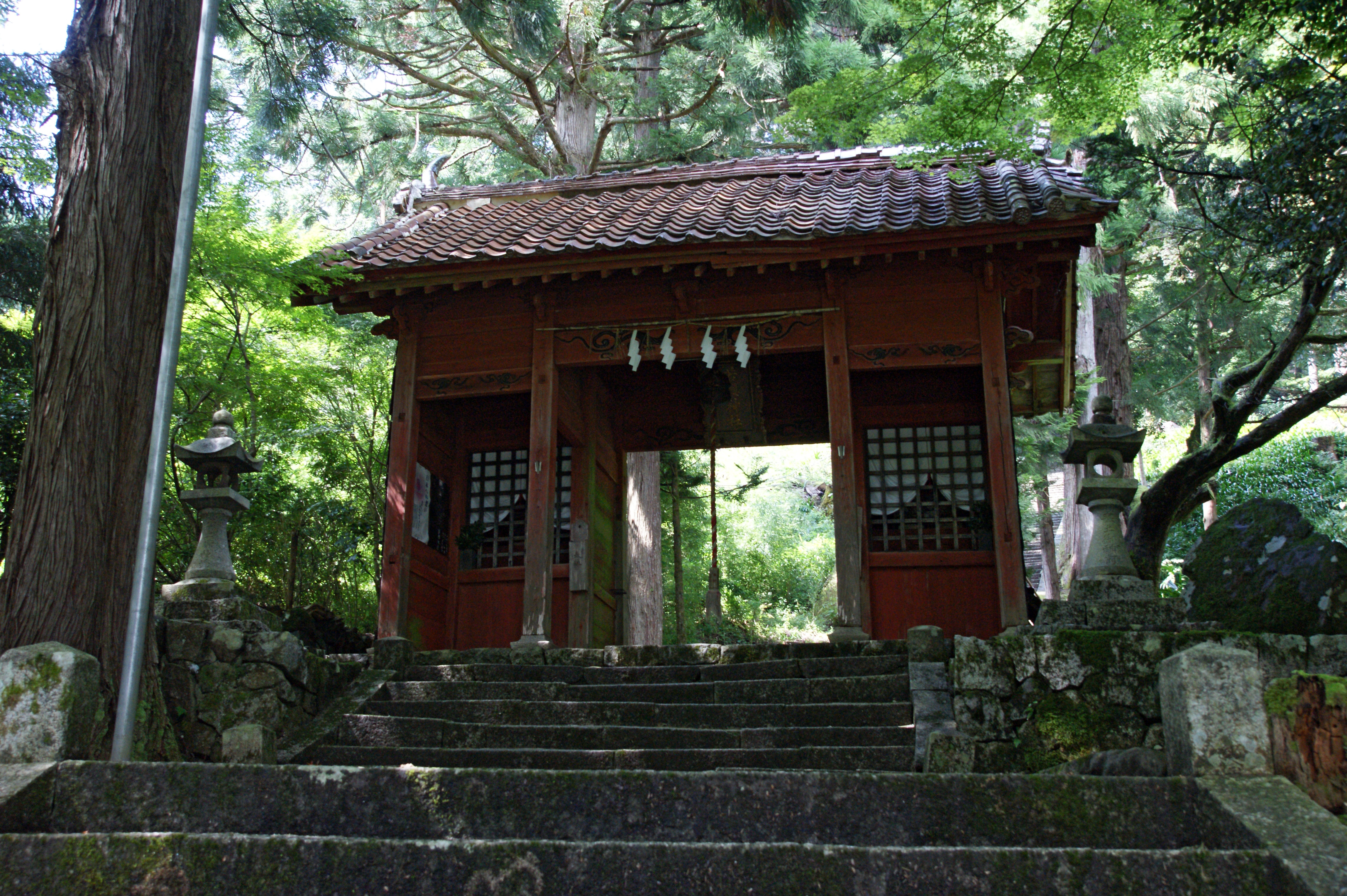 Wakasa-jinja in Wakasa, Tottori prefecture, Japan